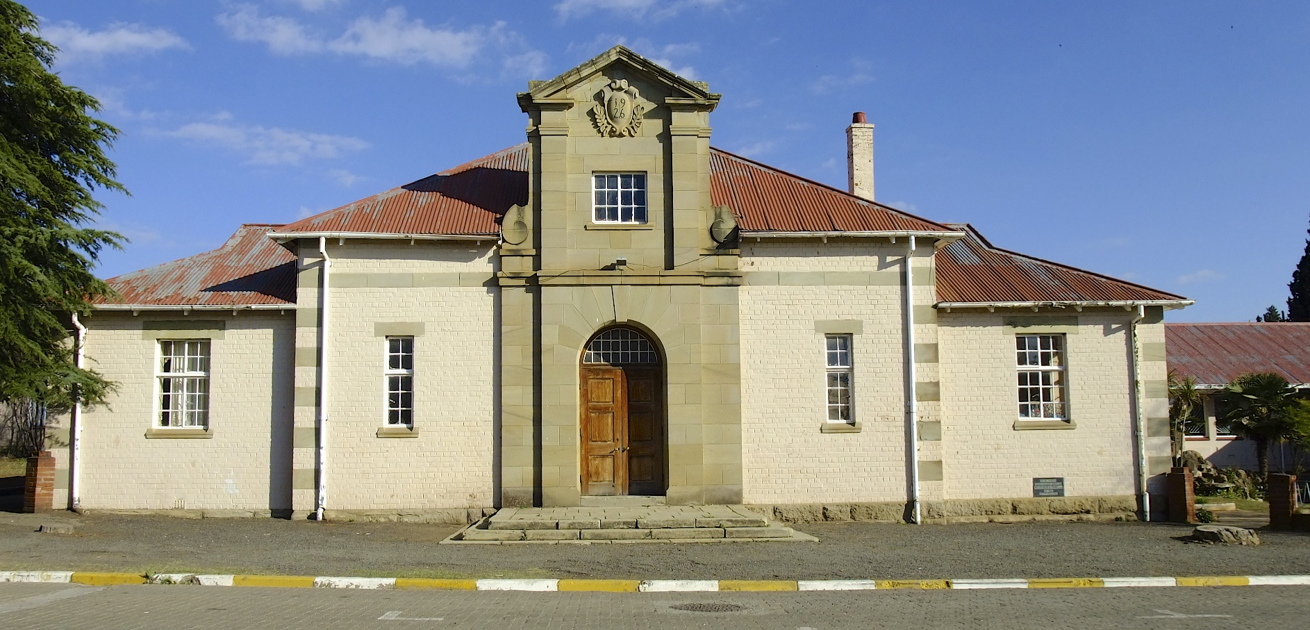 Town Hall, Voortrekker Street, Trompsburg This media shows a South African Protected Site with SAHRA file reference 9/2/339/0003.